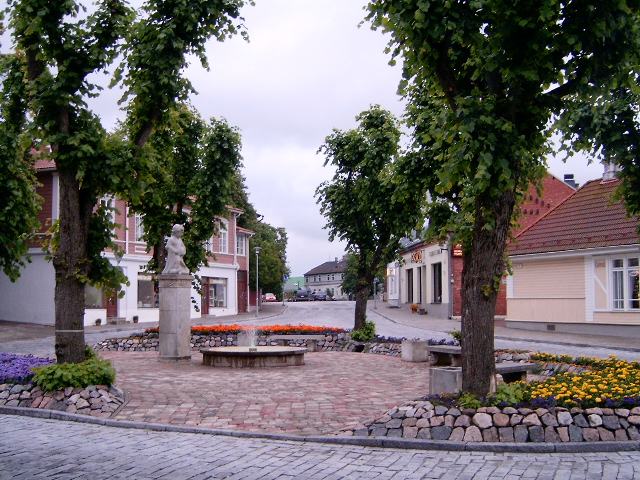 picture of Haapsalu, Estland